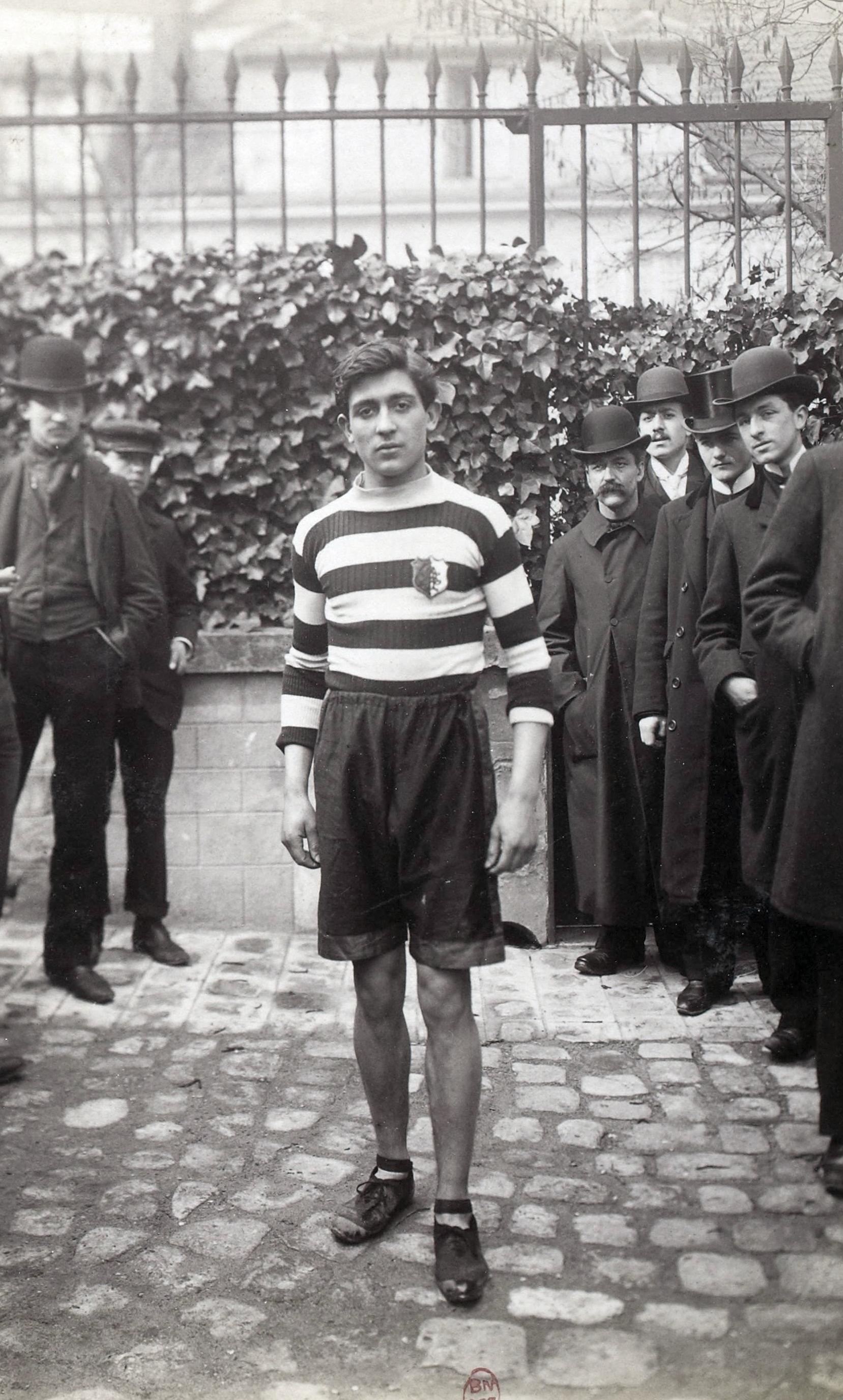 [Collection Jules Beau. Photographie sportive] : T. 16. Années 1901 et 1902 / Jules Beau : F. 33v. [Cross-Country, Championnat national, Saint-Cloud, 2 mars 1902] ; Ragueneau; - Gaston Ragueneau en 1902, lors du 'National' de cross-country.